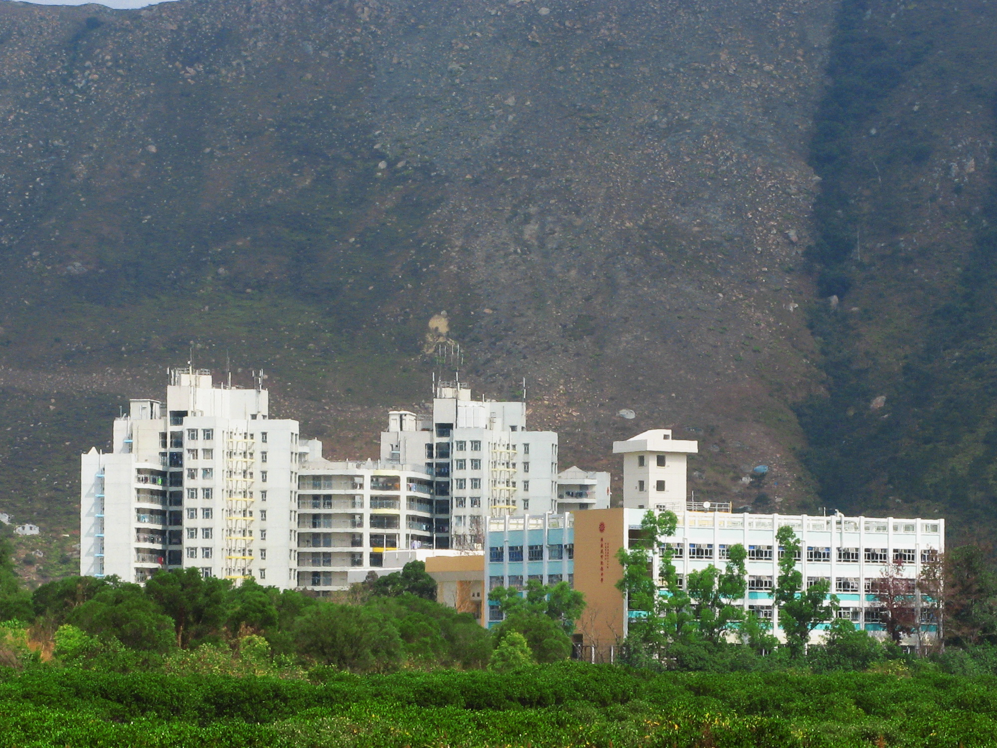 Buddhist Fat Ho Memorial College (right) and Lung Tin Estate (left), Tai O, Hong Kong.